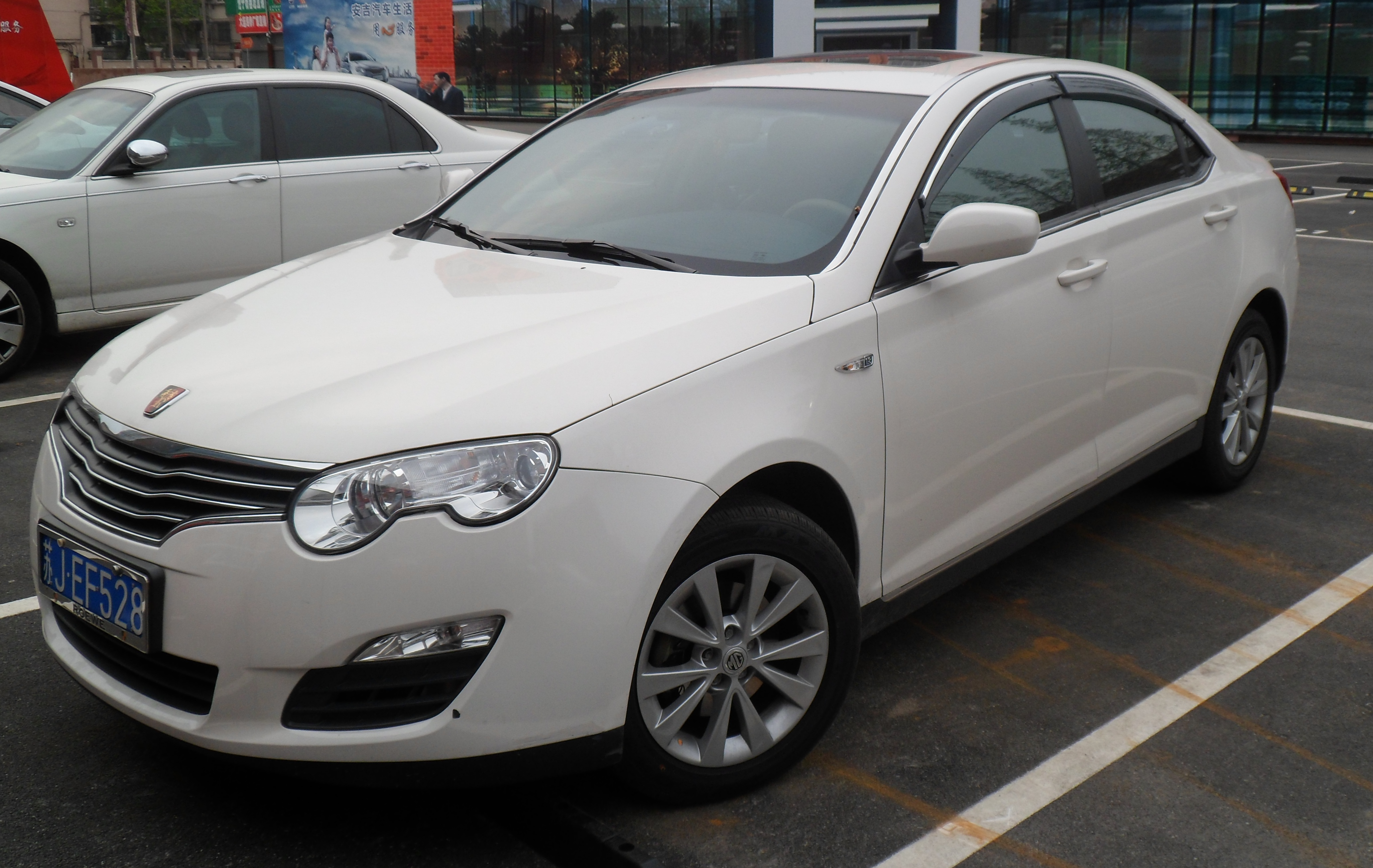 Roewe 550 photographed in Shanghai, China.